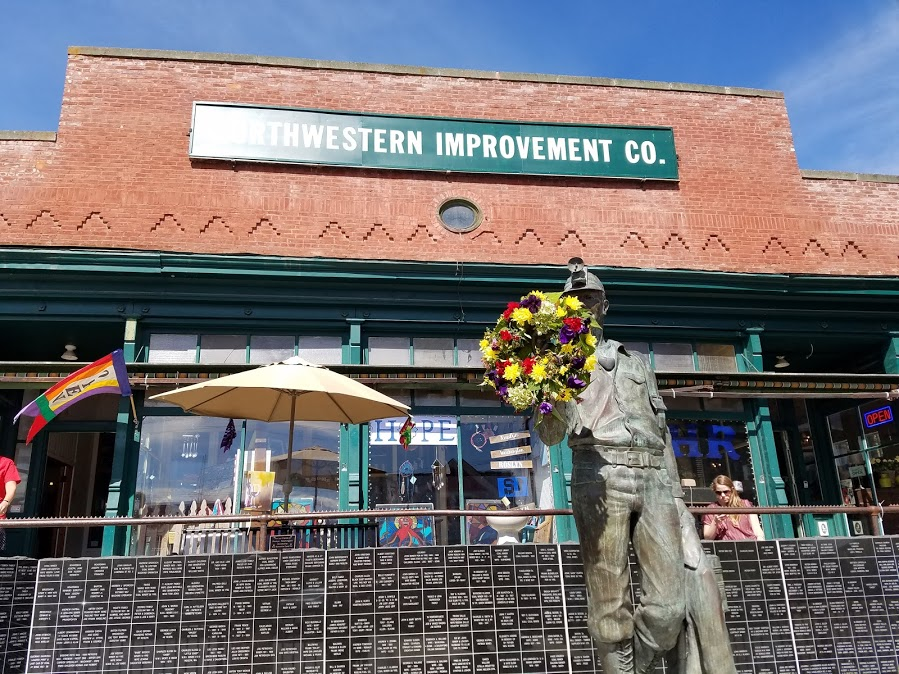 Miner's memorial in front of the Northwestern Improvement Company Store in Roslyn, WA. Taken over Labor Day Weekend, 2016.